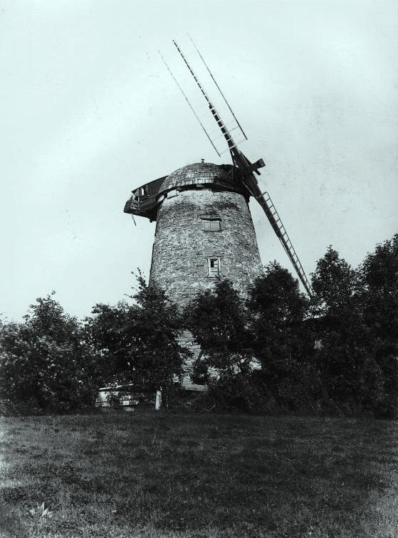 Photograph, Old windmill, Lower Lachine Road, Lasalle, QC, about 1890, Wm. Notman & Son. Silver salts on glass - Gelatin dry plate process - 25 x 20 cm